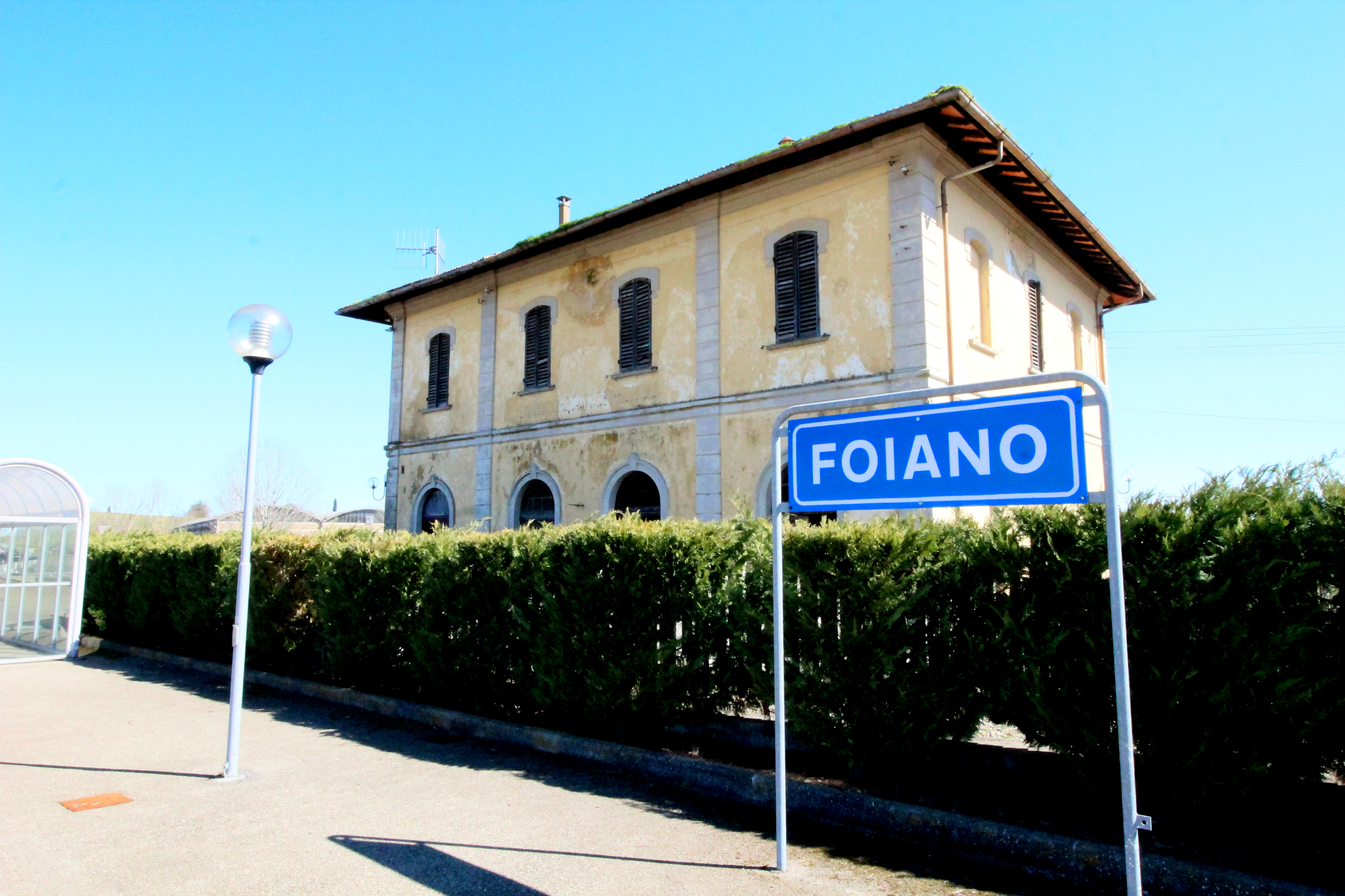 Train station of Foiano della Chiana, Province of Arezzo, Tuscany, Italy